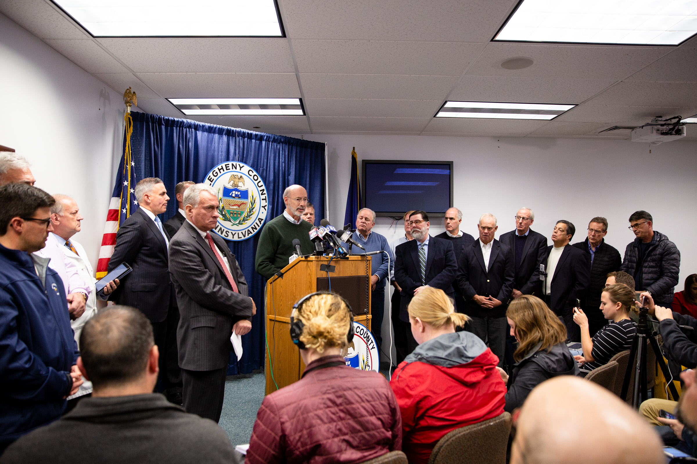 Governor Wolf Gives Remarks Regarding Pittsburgh Shooting and Participates in Vigil Pittsburgh synagogue shooting